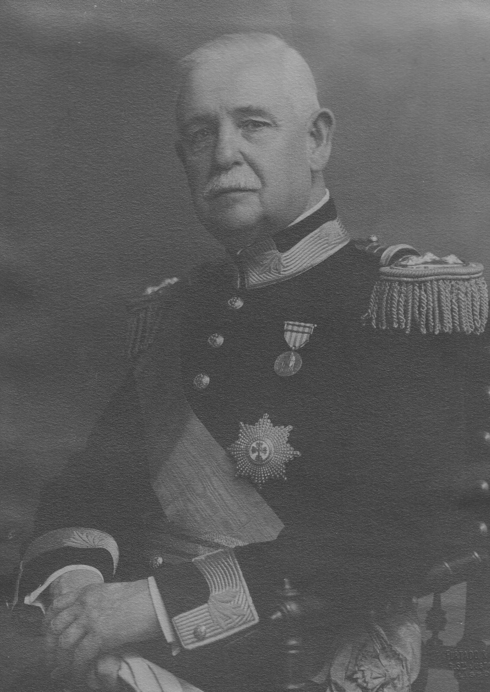 Ricardo Júlio Ivens Ferraz (1864-1956), a Portuguese general - c. 1940